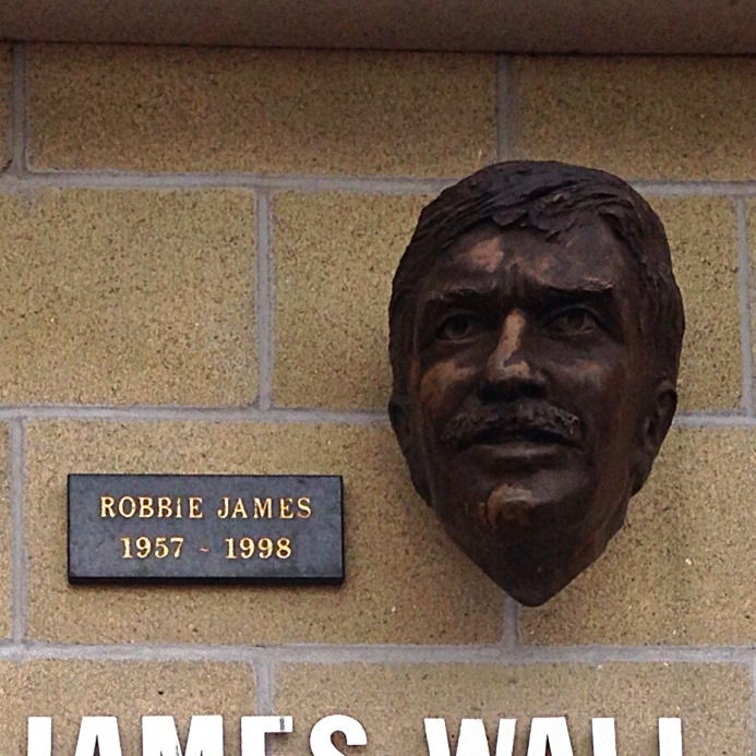 Bust of Robbie James, Liberty Stadium, Swansea, Wales